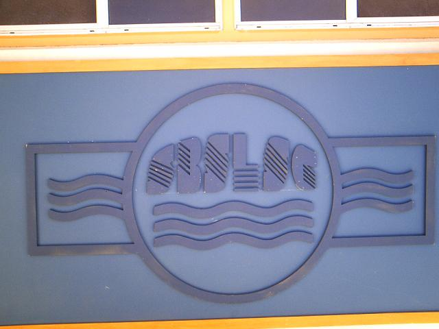 The Summer Bay Surf & Lifesaving Club sign. Photo taken by cls14 in August 2006